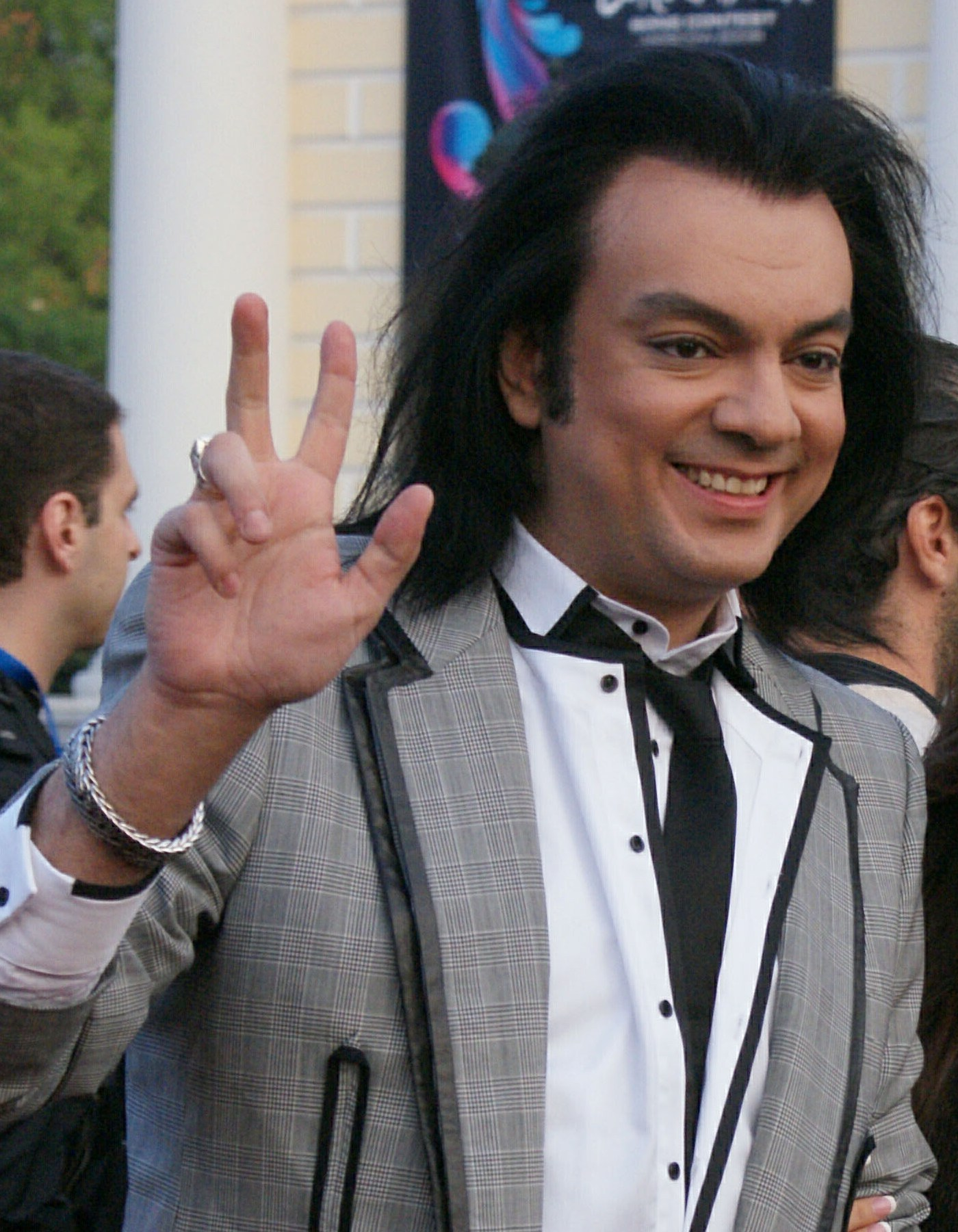 Philipp Kirkorov in Moscow